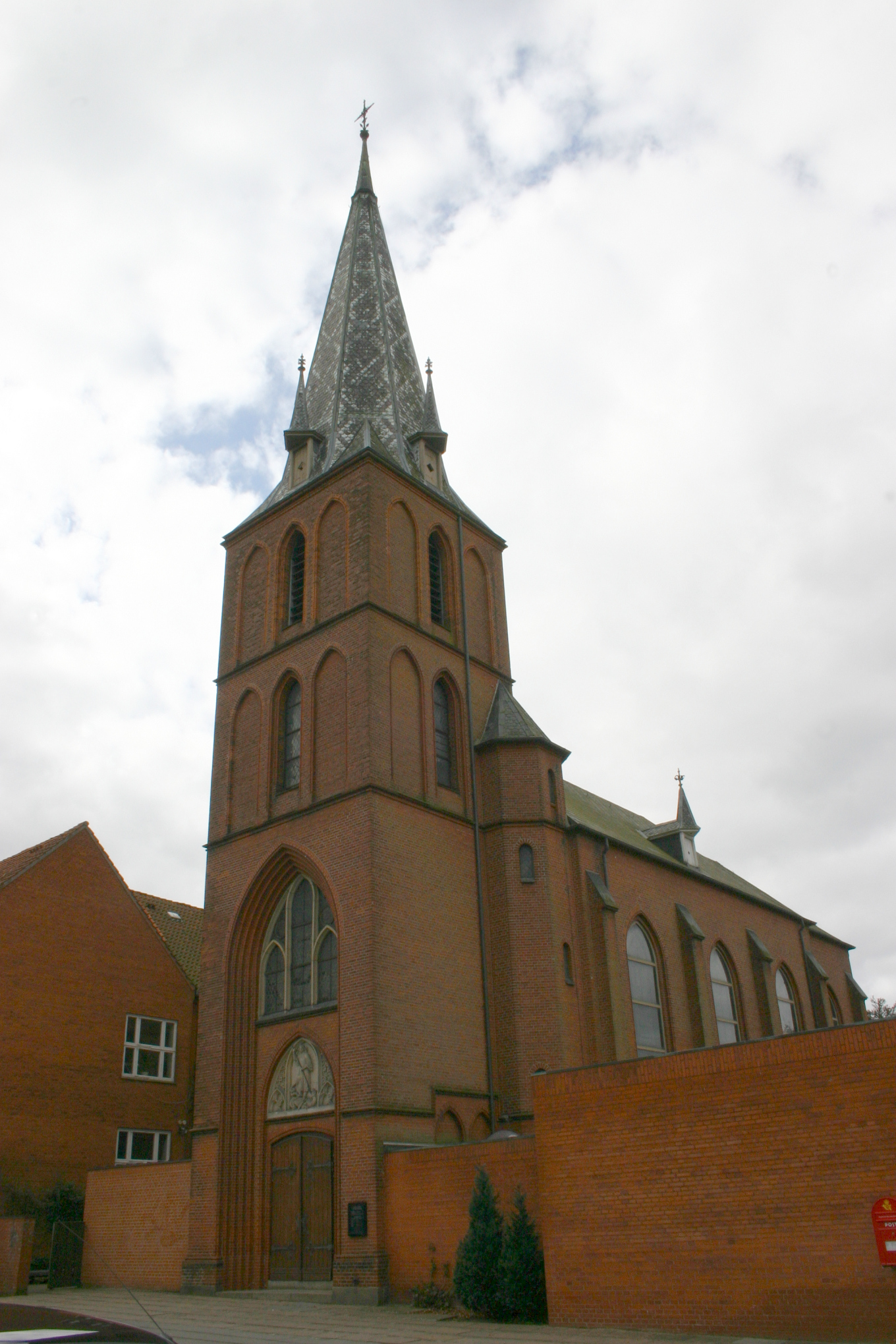 Sct. Michaels kirke in Kolding, Denmark.A catholic church build in 1882.160 seats.